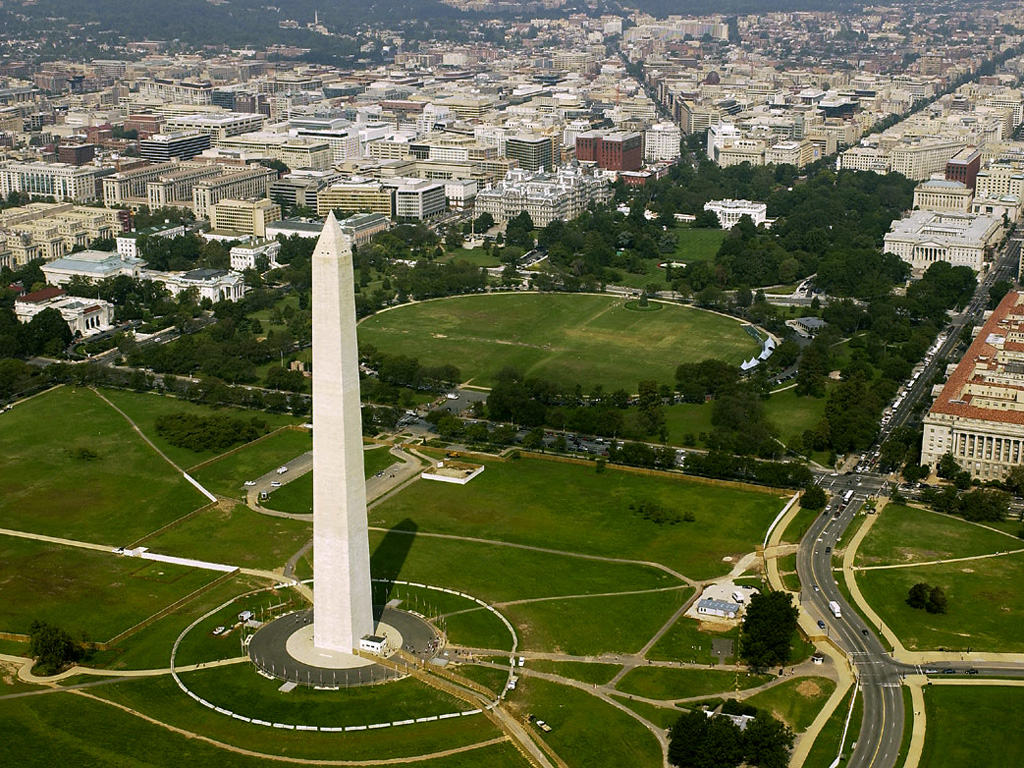 030926-F-2828D-080 Washington, D.C. (Sept. 26, 2003) -- Aerial view of the Washington Monument with the White House in the background. DoD photo by Tech. Sgt. Andy Dunaway. (RELEASED)